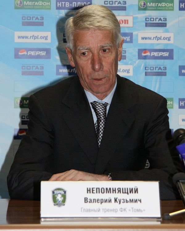 Valery Nepomnyashchy coaching FC Tom Tomsk.